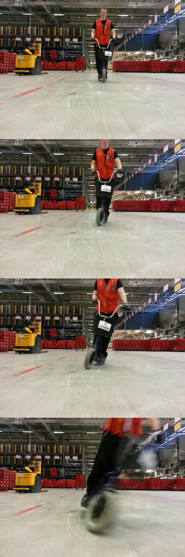 This montage of four images shows what happens when a two wheeled vehicle (in this case a scooter) is countersteered. Image 1: The bike is going straight Image 2: The front wheel is turned to the right. The bike begins to move to the right. Image 3: The mass of the driver and scooter stays in roughly the same place while the bottom of the scooter moves out. This causes the scooter and rider to lean to the left. Image 4: The driver and/or steering dynamics of the scooter makes the front wheel to turn in the same direction as the lean. The scooter now both turns and leans to the left.